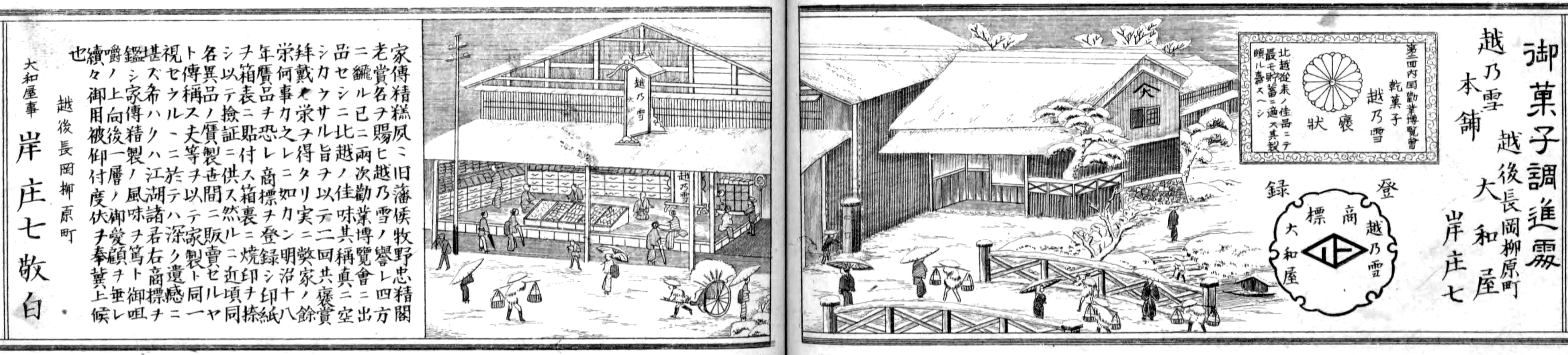 Koshinoyuki Honpo Yamatoya (a sweet shop in Nagaoka, Niigata Prefecture, Japan) in Meiji era